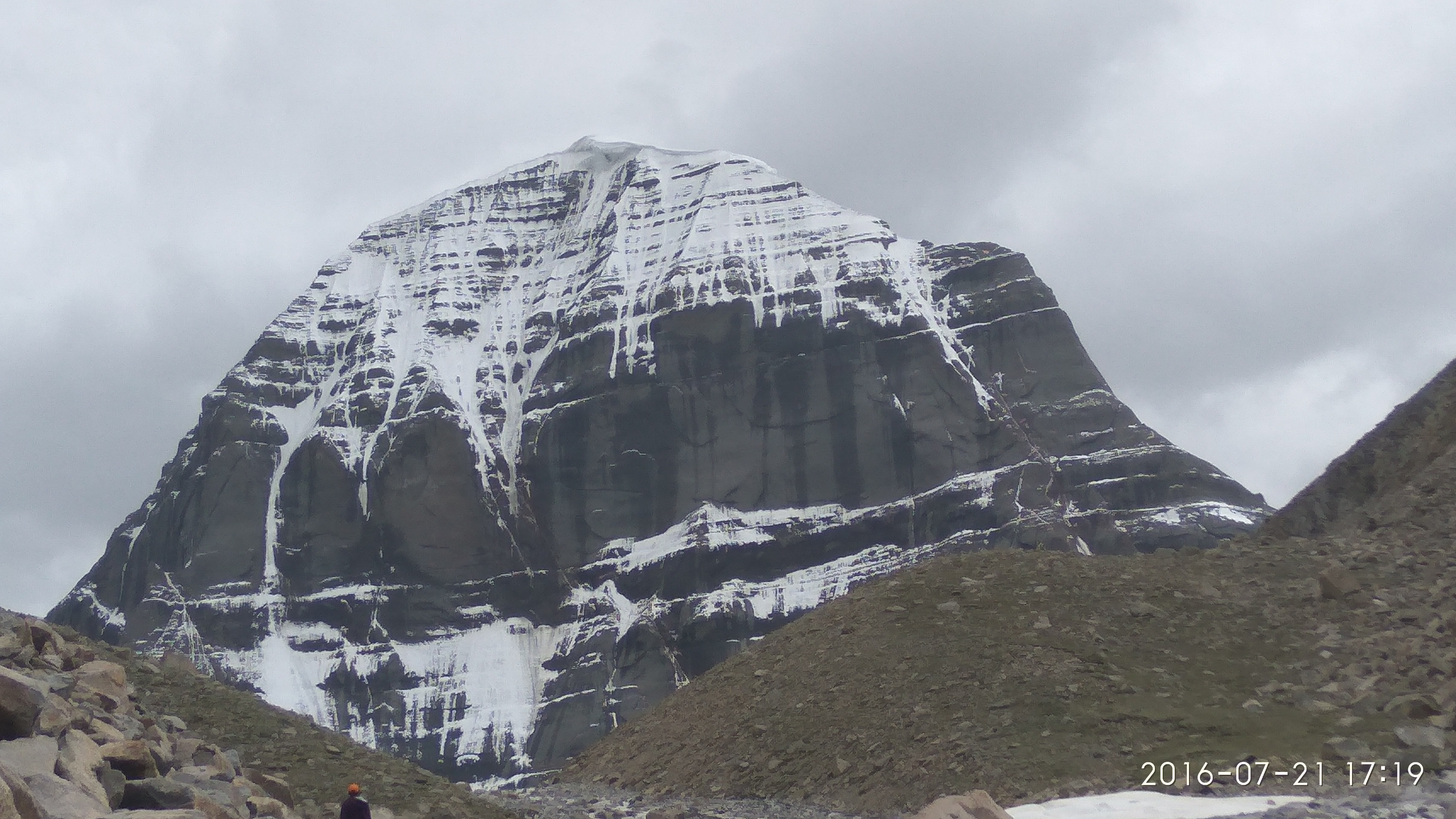 This pic is of Mount Kailash - North View. Taken from Deraphuk.